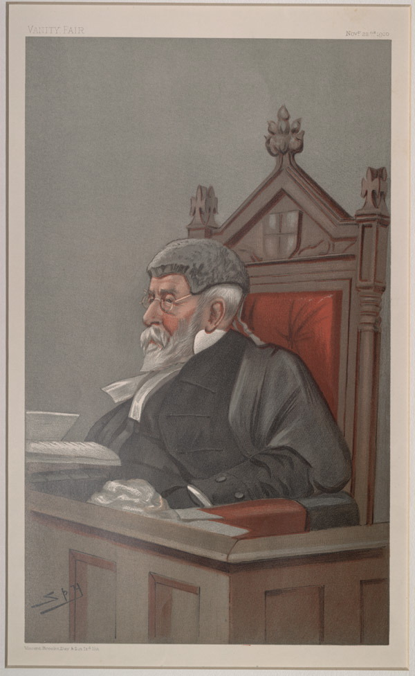 Judges No.59: Caricature of Mr Commissioner Kerr. From [1]: Commissioner Robert Malcolm Kerr (1821-1902), the son of John Kerr (1791-1853), a writer in Glasgow, and Elizabeth Malcolm. Educated at Glasgow University then become a barrister in Lincoln's Inn. He was a Judge at the Guildhall Court in the City of London for forty-three years. He twice failed to get into Parliament, and despite being offered an extremely generous pension, he refused to retire from his position at the City of London Court. Quote from original publication: "He administers a kind of rough and ready justice that irritates many and pleases few. His worst faults are his inclination to decide cases when only part heard and his occasional disregard of the existing state of the Law. For years he has successfully defied the High Court by persisting in refusal to trouble himself by taking notes of his cases. He does not believe in juries, and it is his special delight to ridicule the Mayor's Court which sits over the way.". Caption reads: "the City of London Court"